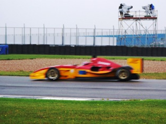 Galatasaray SK Racing Team Car on circuit